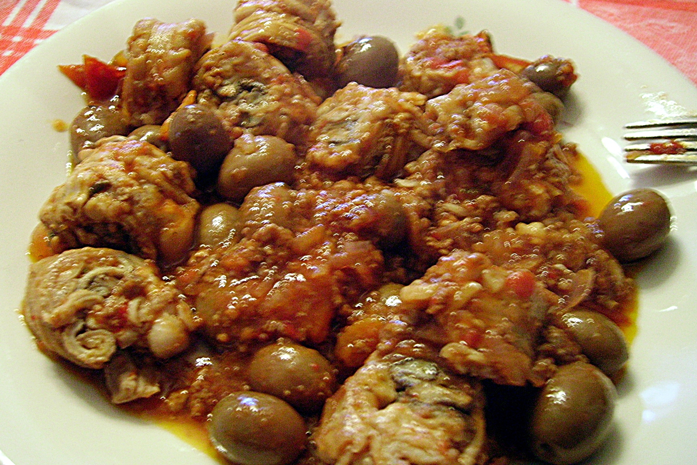 Cordula: traditional Sardinian dish